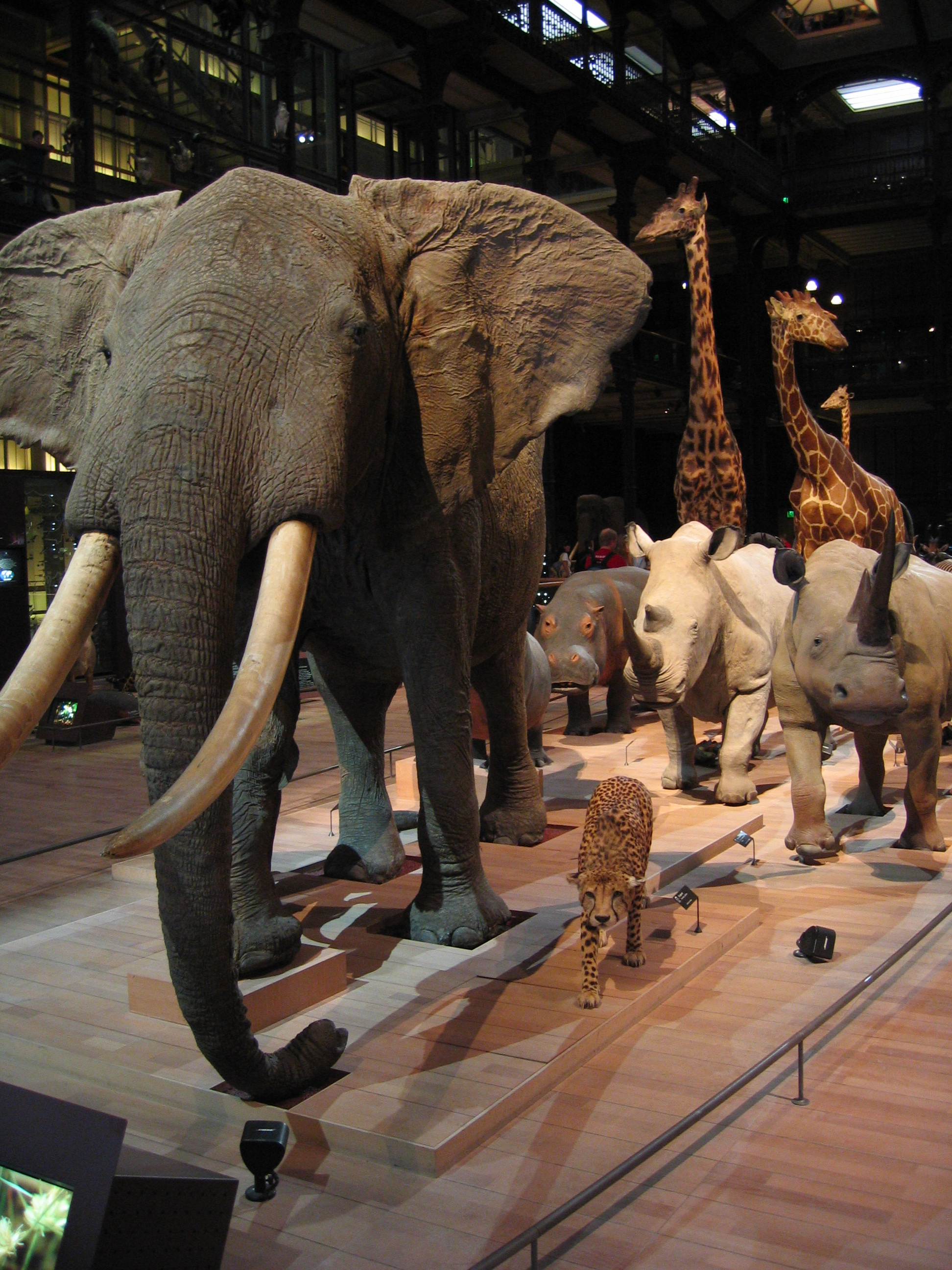 The "African fauna herd" as exhibited in the first level of the Gallery of Evolution, which is a zoology museum building belonging to the French National Museum of Natural History. The Gallery of Evolution's building is located in the Jardin des plantes in Paris.